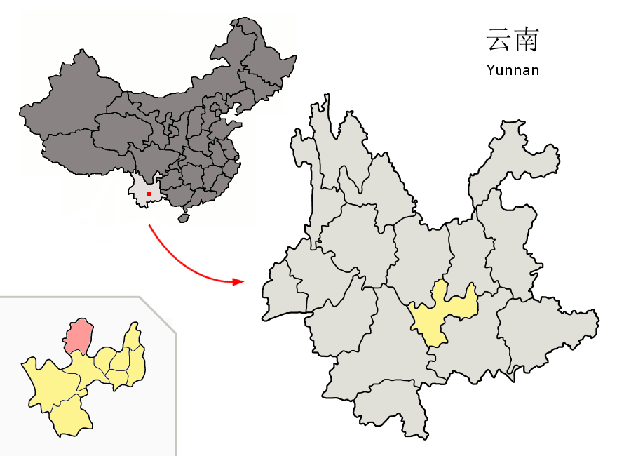 Location of Yimen County (pink) and Yuxi Prefecture (yellow) within Yunnan province of China Map drawn in september 2007 using various sources, mainly : Yunnan province administrative regions GIS data: 1:1M, County level, 1990 Yunnan Counties map from